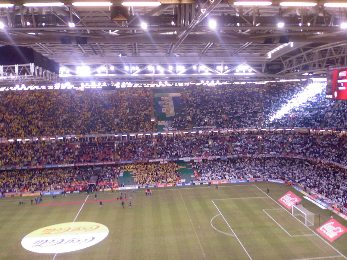 Millenium Stadium, Cardiff. Championship Play-off final 06